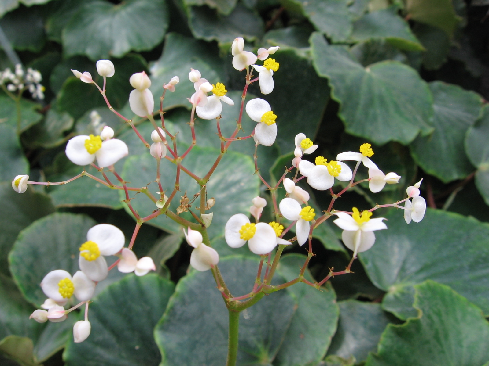 Begonia floccifera, Jardin botanique de Montréal.